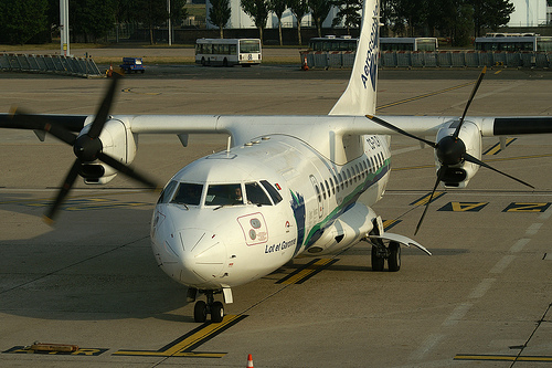 Aerocondor ATR 42 CS-TLR at Paris-Orly